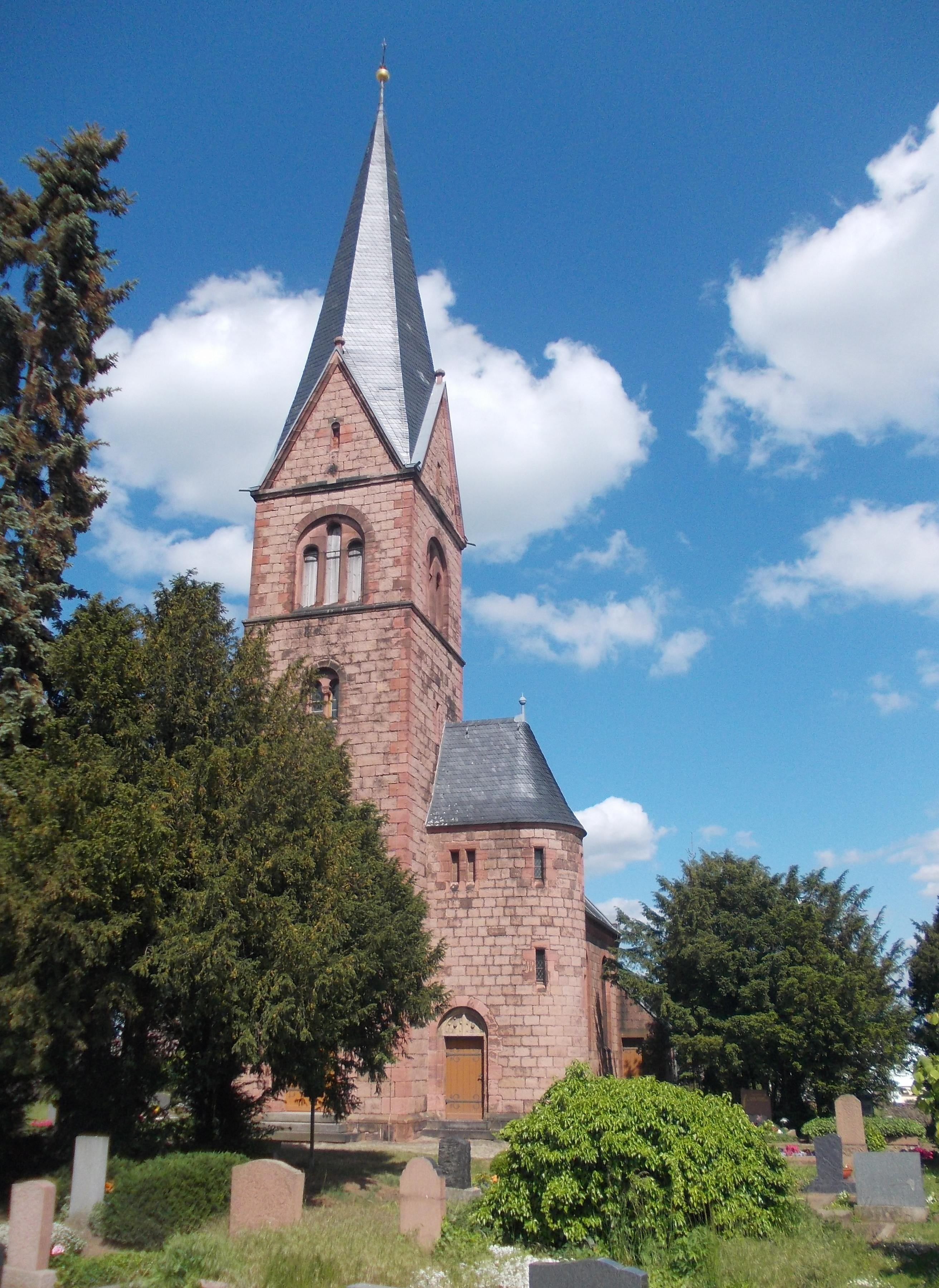 Schlettau church (Wettin-Löbejün, district: Saalekreis, Saxony-Anhalt)